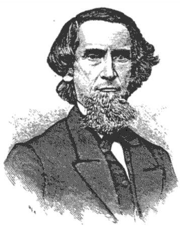 Abraham P. Grant, Congressman from New York